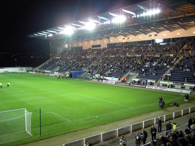 Falkirk Stadium The main stand at Falkirk Stadium before the match versus Queen of the South.